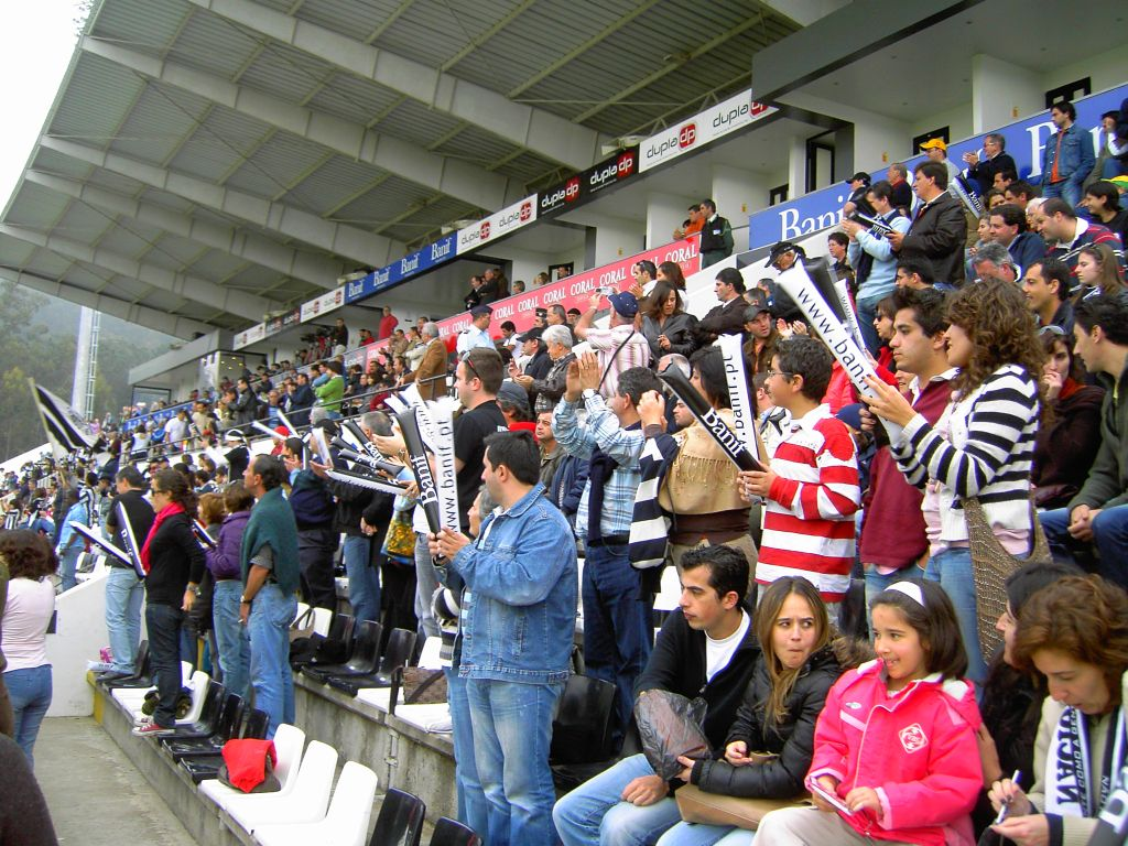 Image of Estádio Eng. Rui Alves (Funchal, Portugal). Fans of the Portuguese C.D. Nacional on the main bridge of the stadium during the Portuguese Liga match versus Associação Académica de Coimbra - O.A.F.